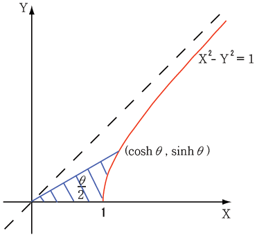 An illustration of 双曲線関数（Hyperbolic function）